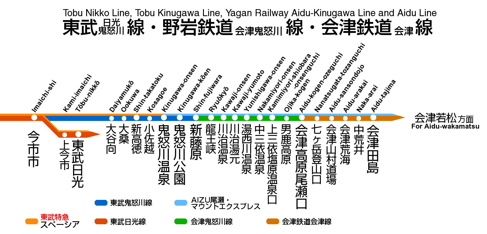 Tobu Nikko, Kinugawa, Yagan Aidu-kinugawa, Aidu lines Route map